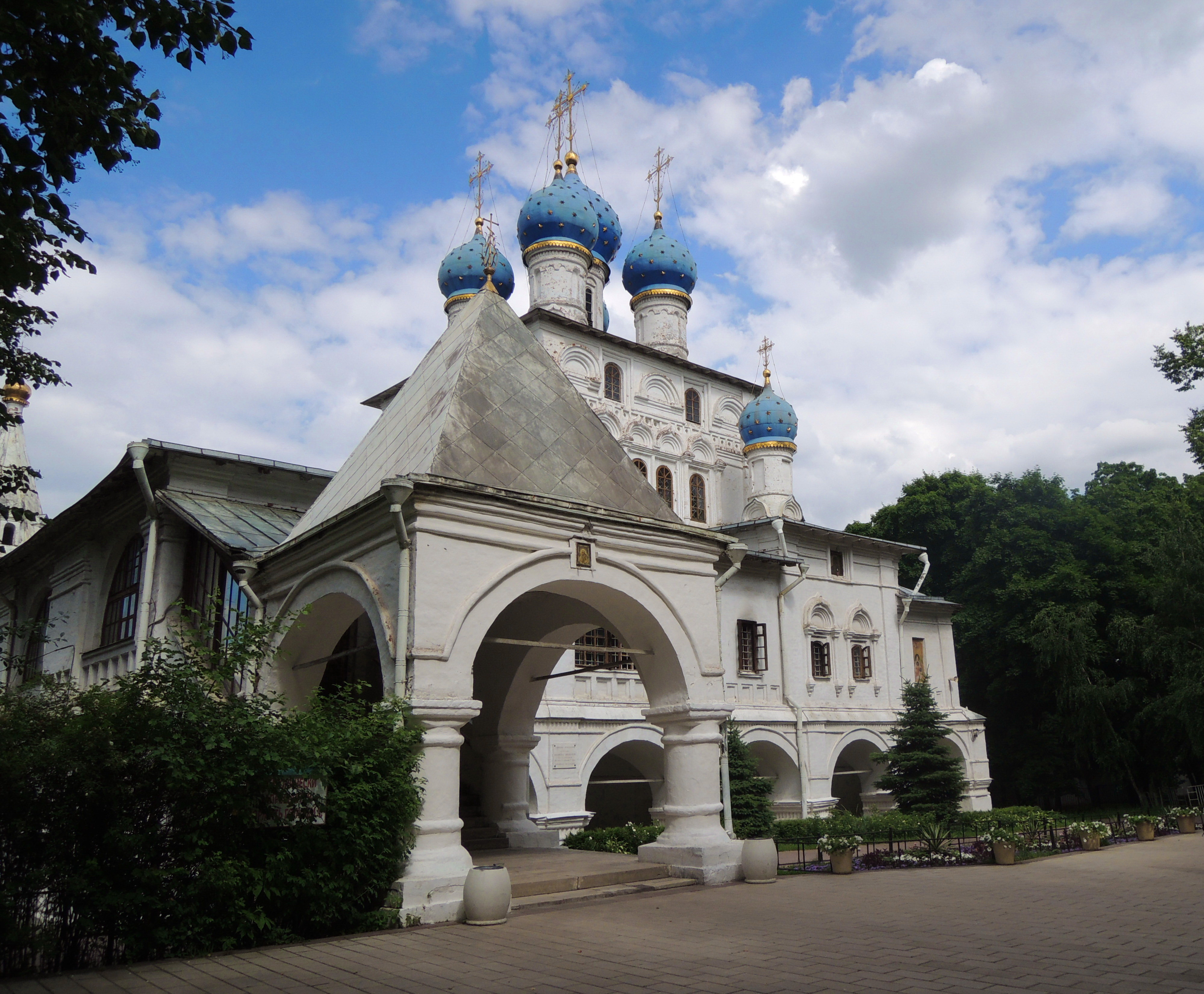 Church of the Theotokos of Kazan in Kolomenskoye (Moscow)